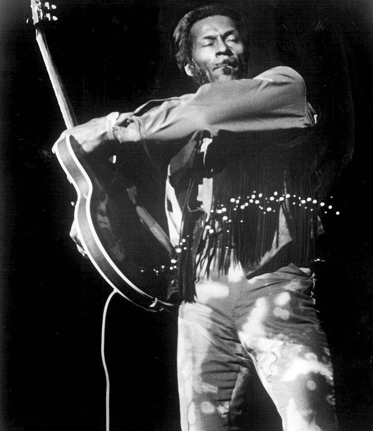 Photo of Chuck Berry performing in 1971. There are no copyright marks on the original which is seen in first upload and at links above.